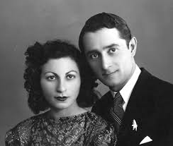 Parviz Natel-Khanlari and Zahra Kia